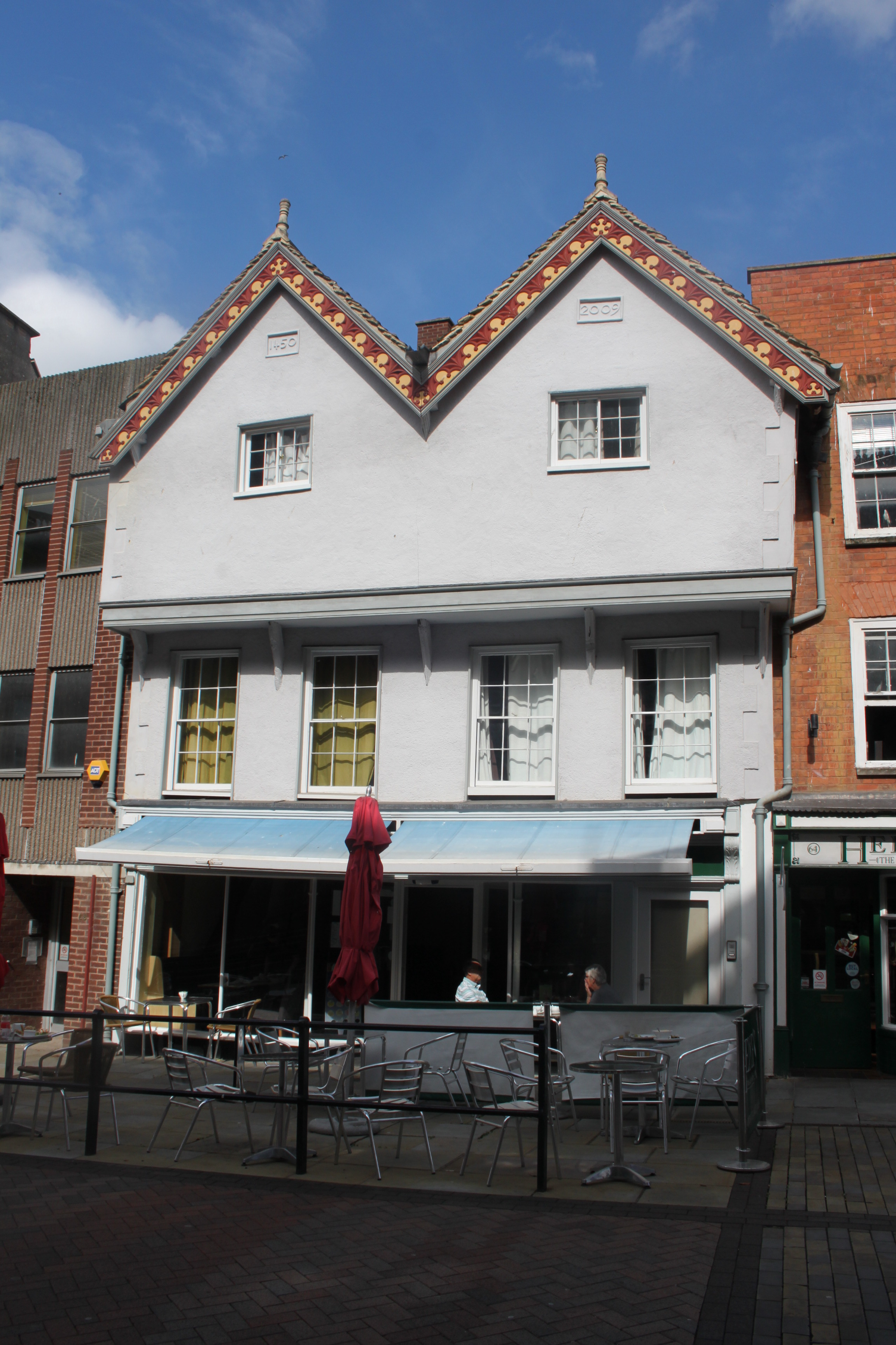 [Shop]